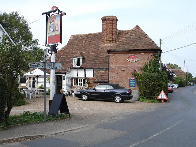 The Carpenters Arms, Eastling. This pub dates back to 1380 and has a good reputation for food.